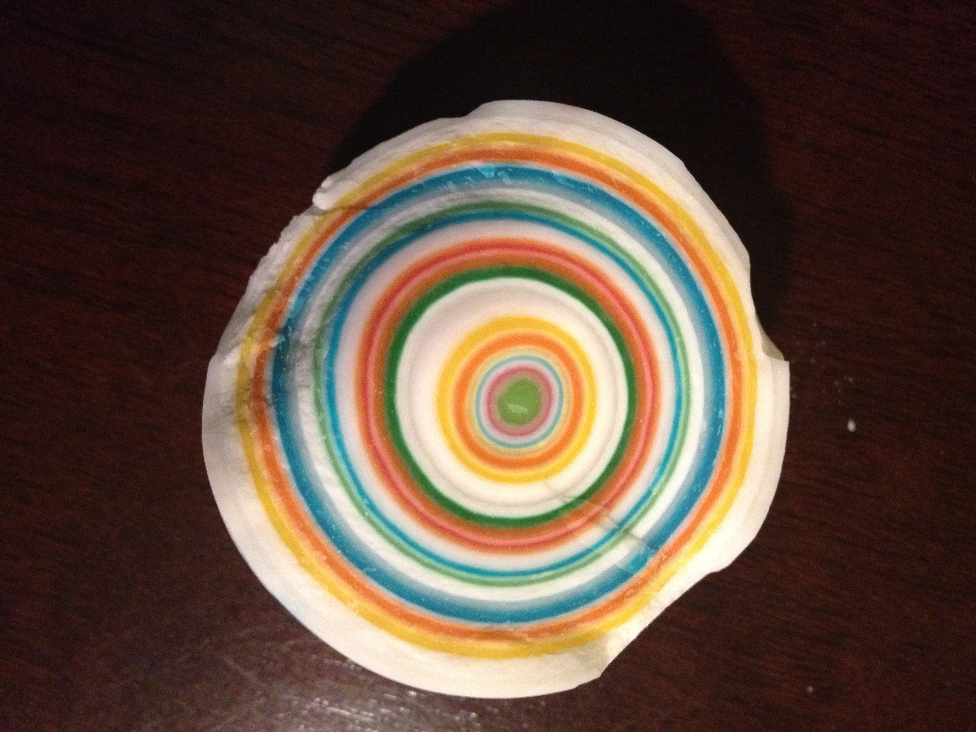 A jawbreaker, or gobstopper, broken in half to reveal layers of candy